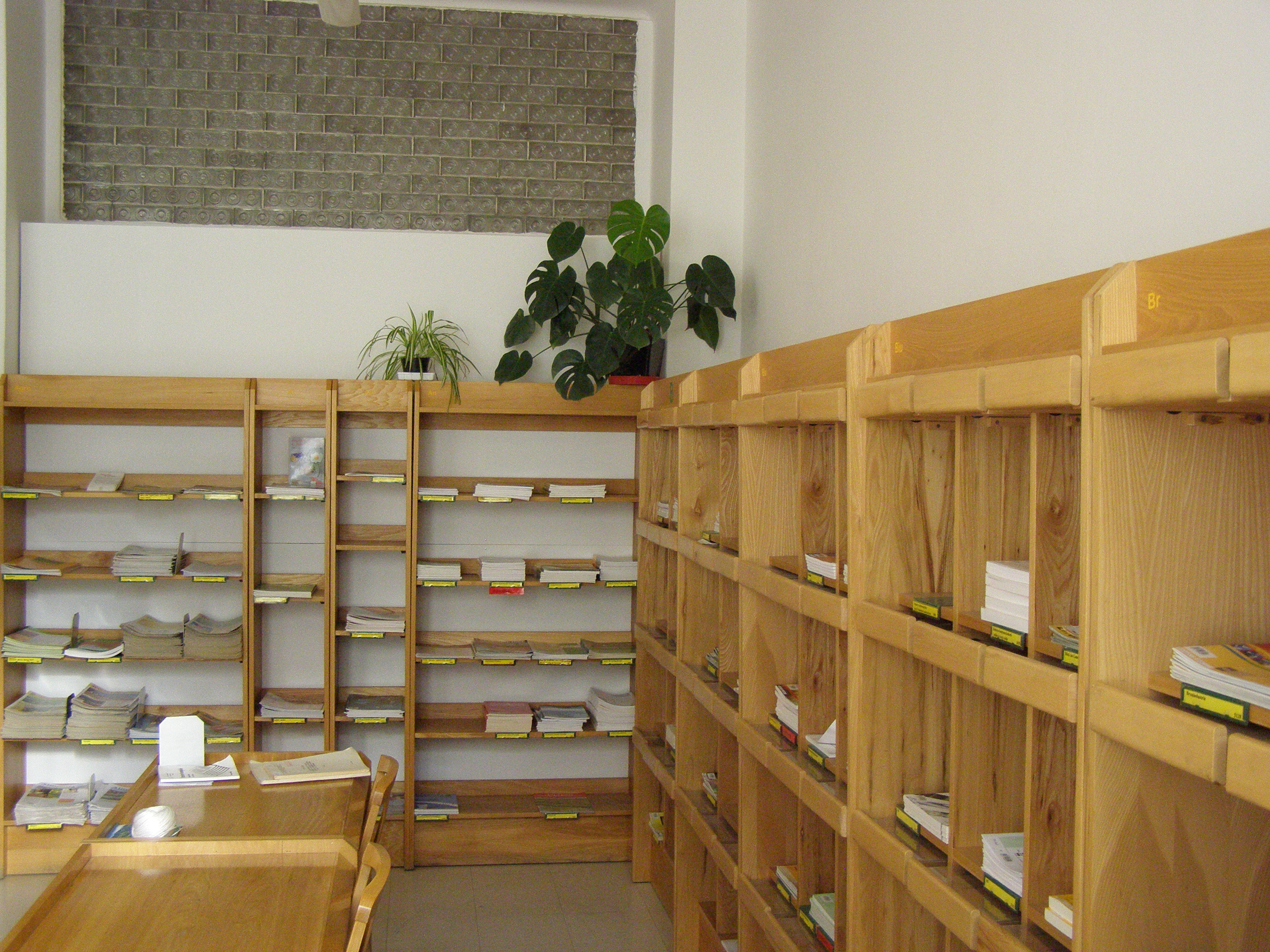 Agriculture and Food Library, Prague, Czech Republic.